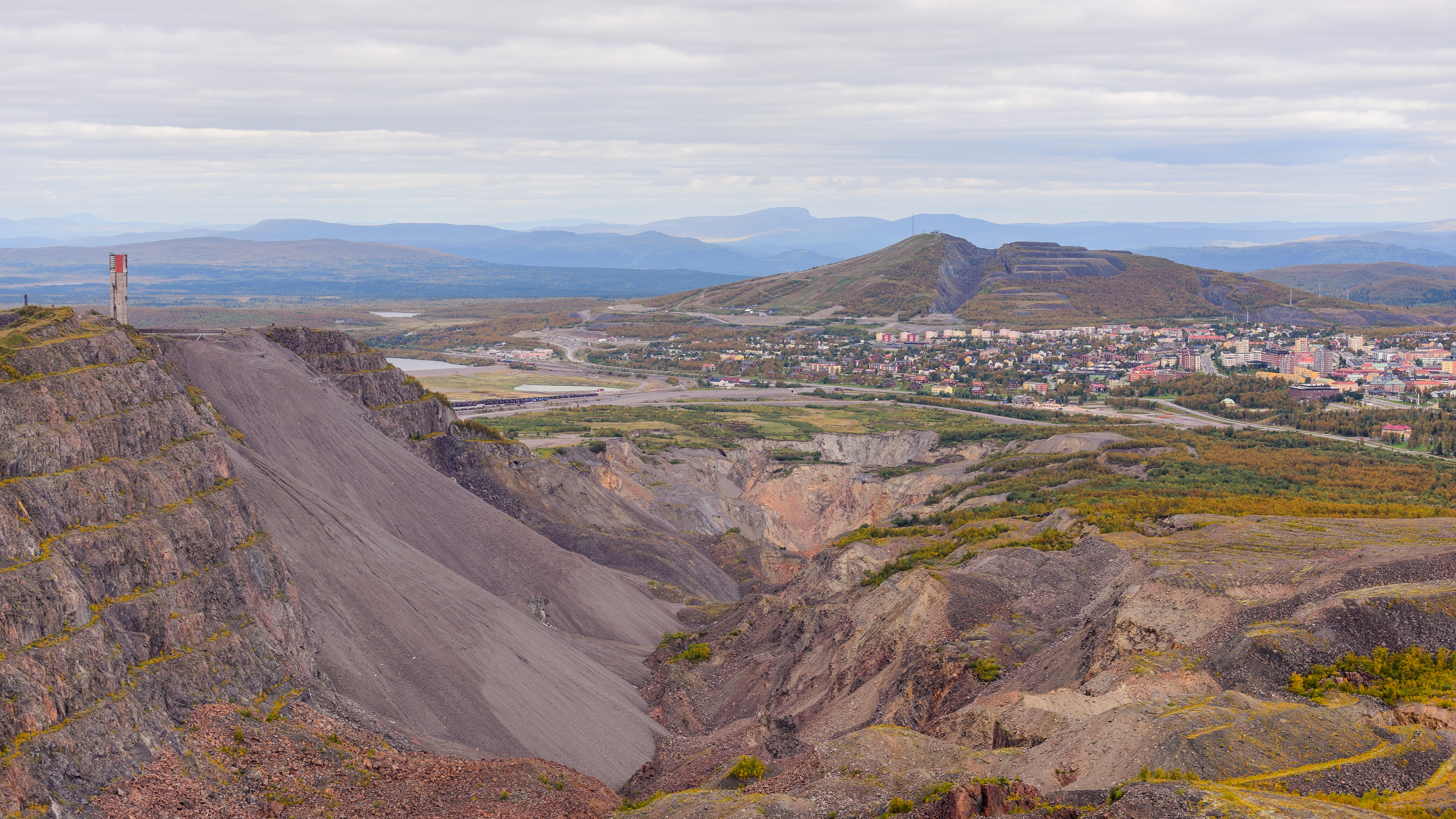 Mount Kiirunavaara (foreground) and mount Luossavaara (background) and the city centre of the mining town of Kiruna. The mountains contains one of the largest and richest bodies of iron ore in the world.